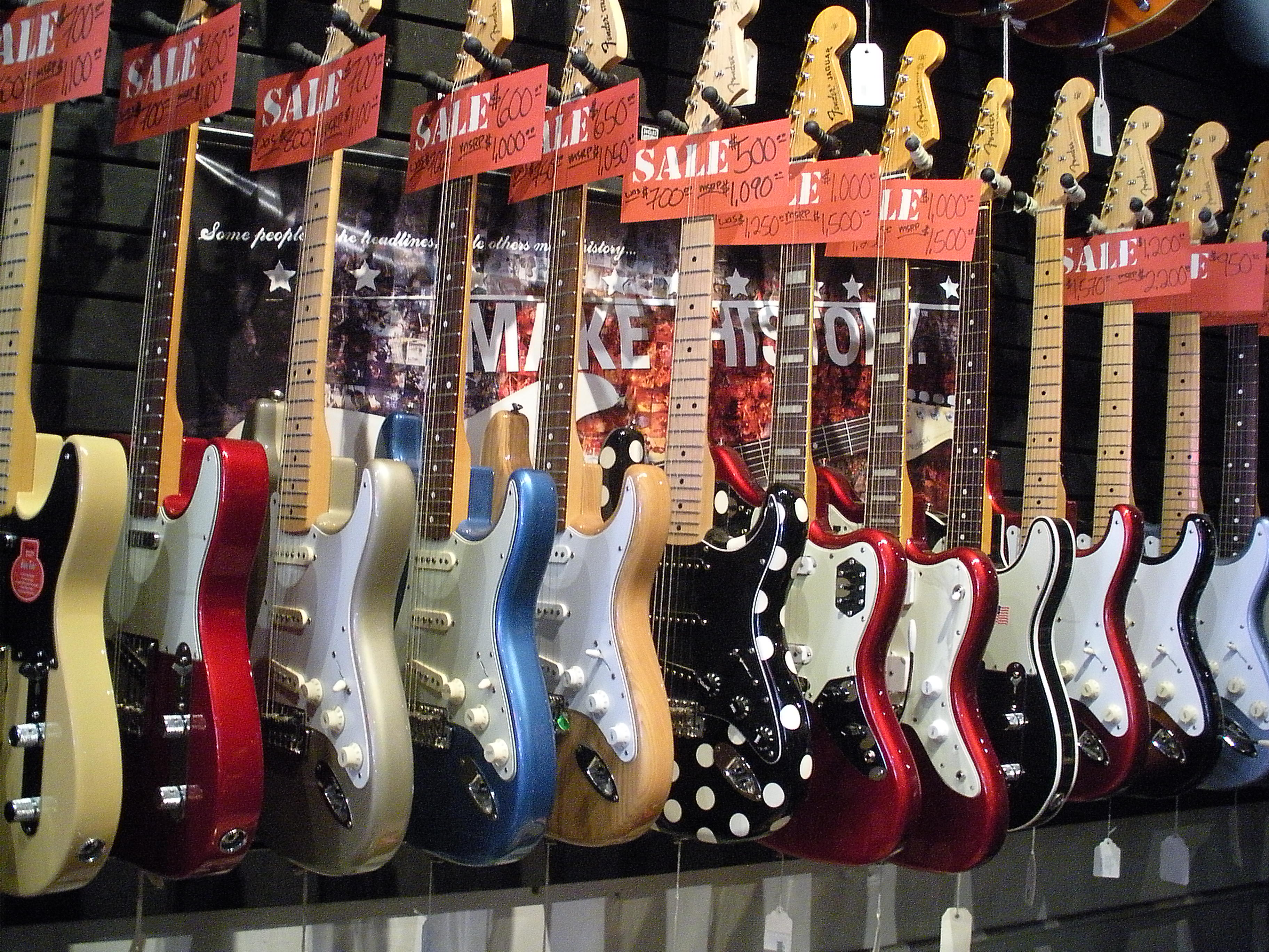 vintage guitar shop on ludlow st. in New York City